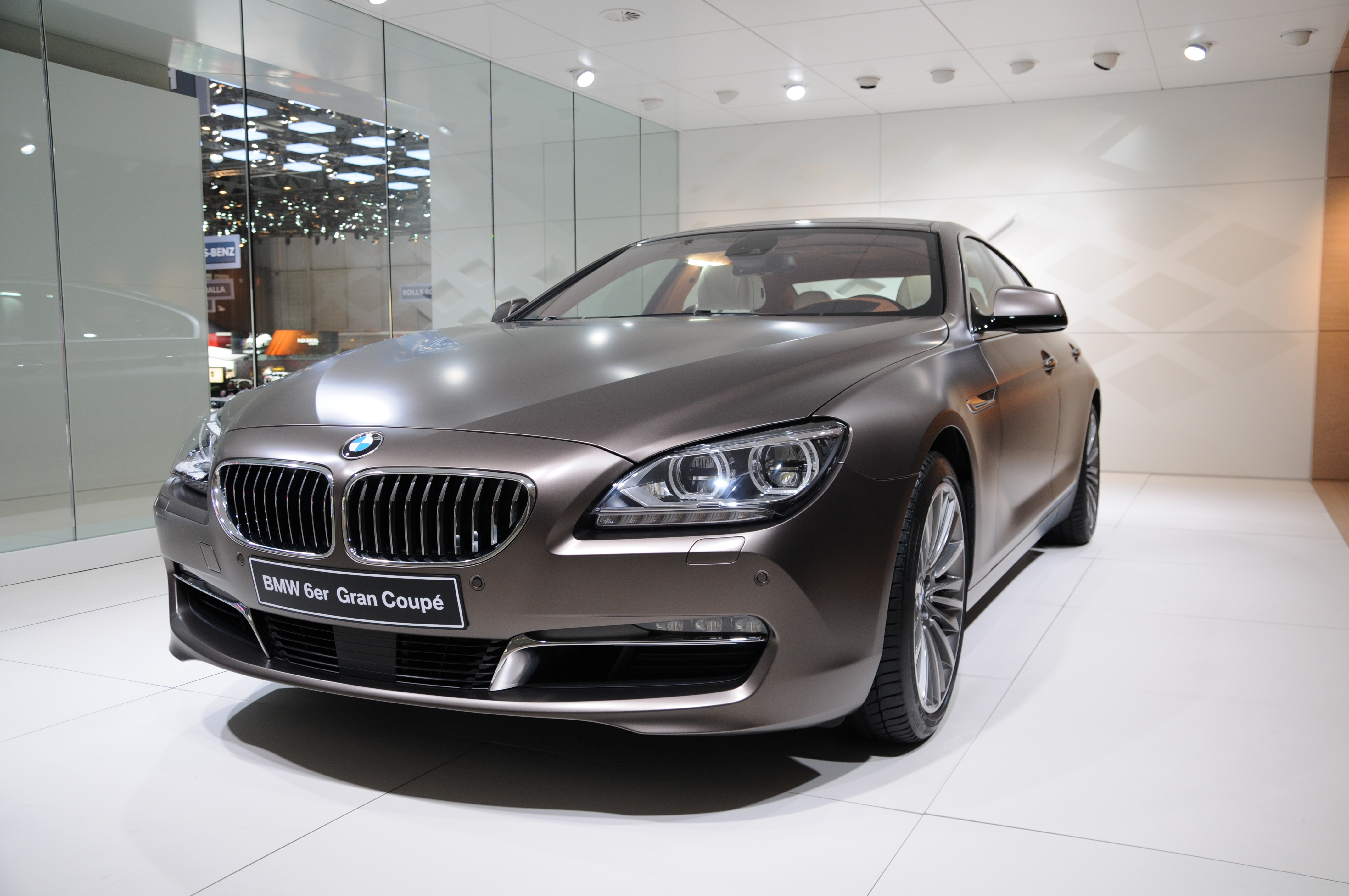 Geneva Motor Show 2012 (photos taken on the second press day)